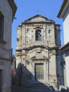 see user:Attilios talk for images from